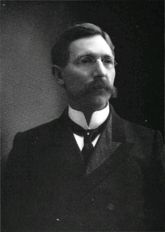 This portrait photograph of Rulon S. Wells (1854-1941) was published in 1901 in the Juvenile Instructor periodical. Wells was a prominant leader in The Church of Jesus Christ of Latter-day Saints (Mormon or LDS Church).